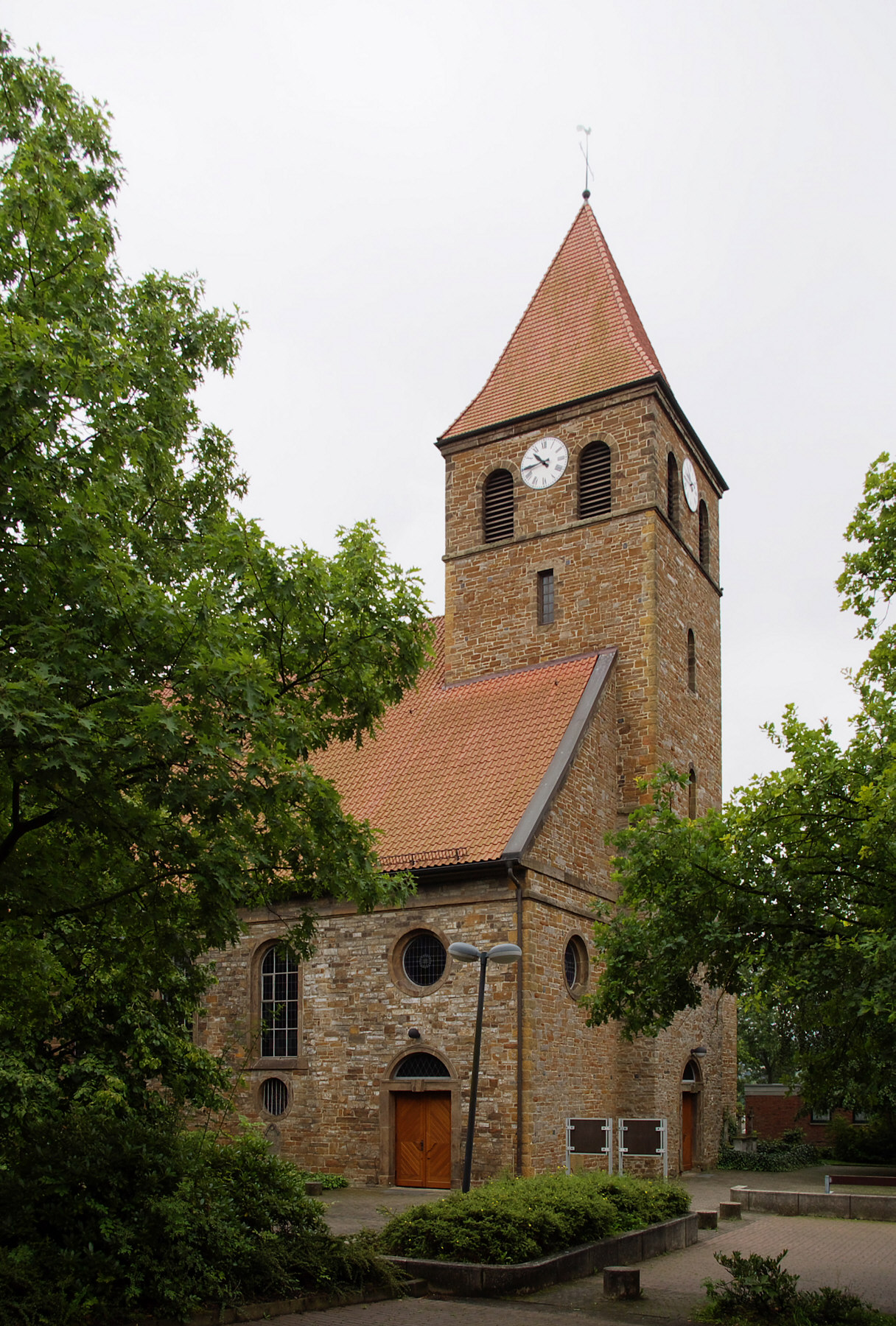 Protestants' church in town of Kirchlengern, District of Herford, North Rhine-Westphalia, Germany.